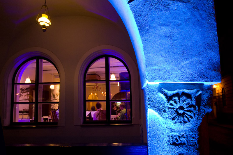 Bílý koníček hotel, Třeboň, Czech Republic